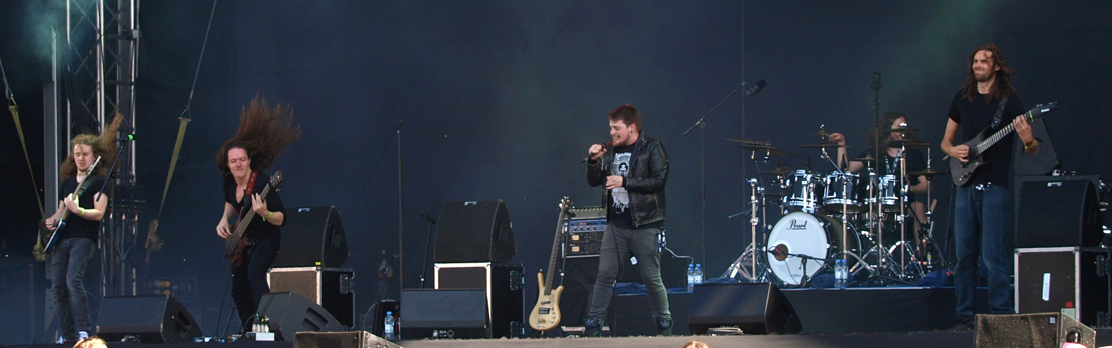 British band TesseractT live at Tuska Open Air 2013